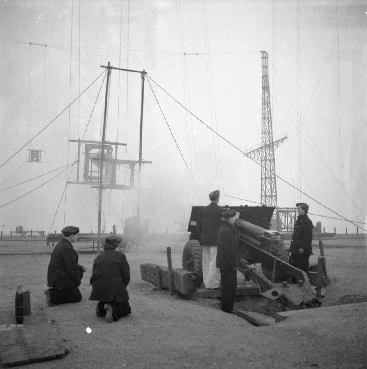 Girl Gunners- the work of the Auxiliary Territorial Service at An Experimental Station, Shoeburyness, Essex, England, 1943 Women of the ATS stand by as a 25 pounder shell is fired at the Royal Artillery experimental station at Shoeburyness. The shell is being fired through a Velocity Screen, which will measure the speed of the shell. The shells are fired into the sea at high tide.